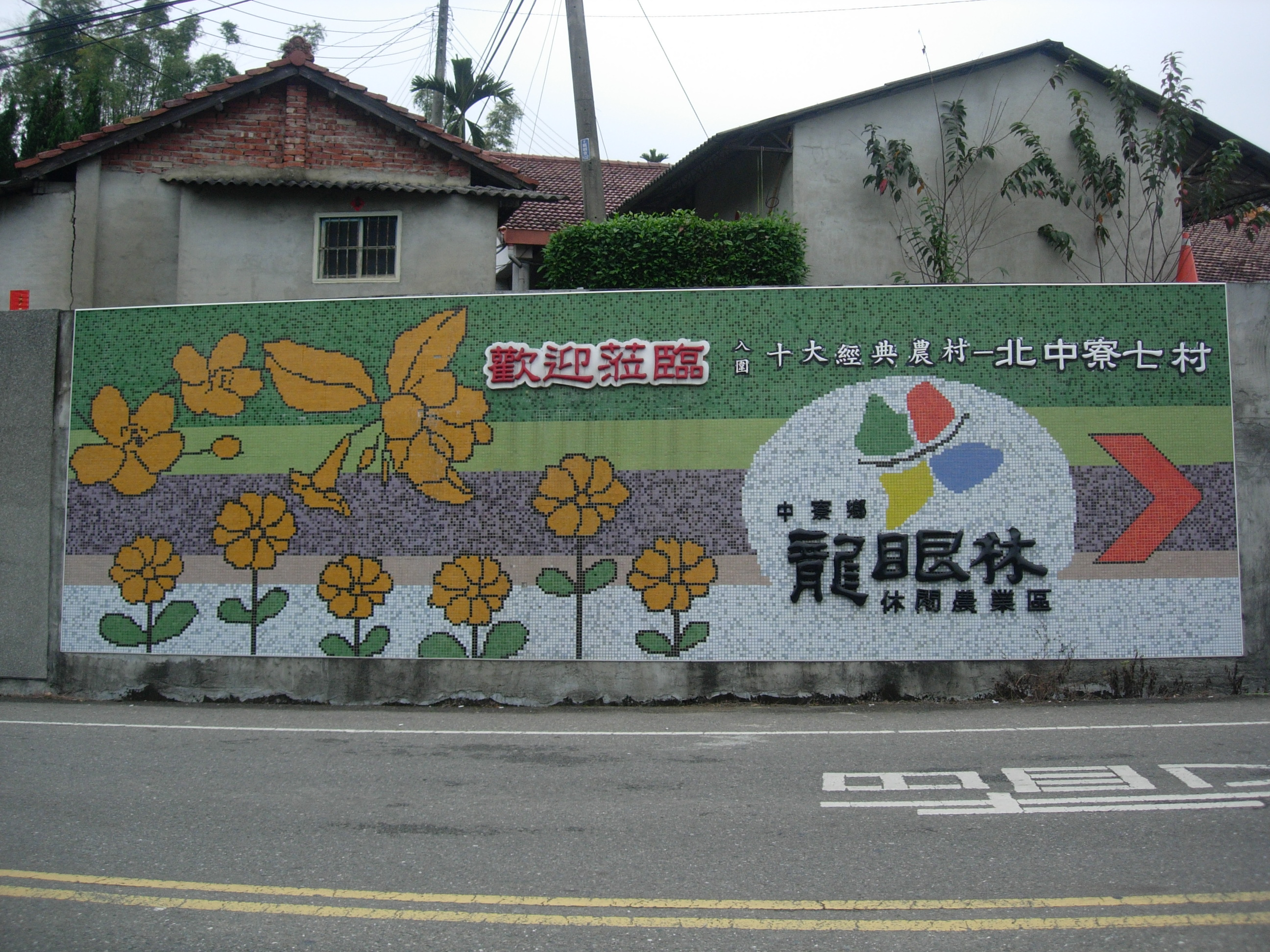 Longyanlin Leisure Agriculture Area